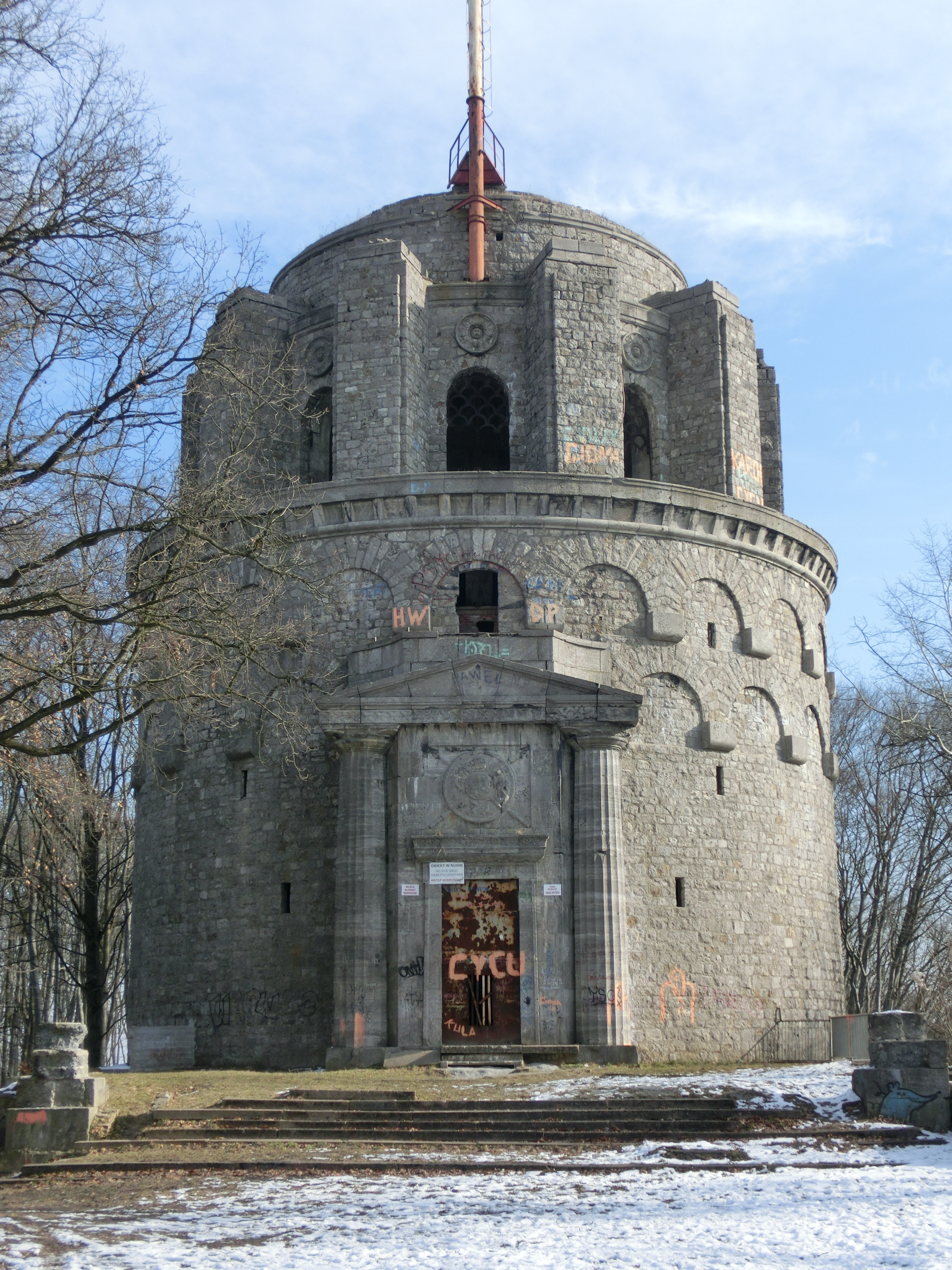 Bismarck tower in Szczecin, Gocław.